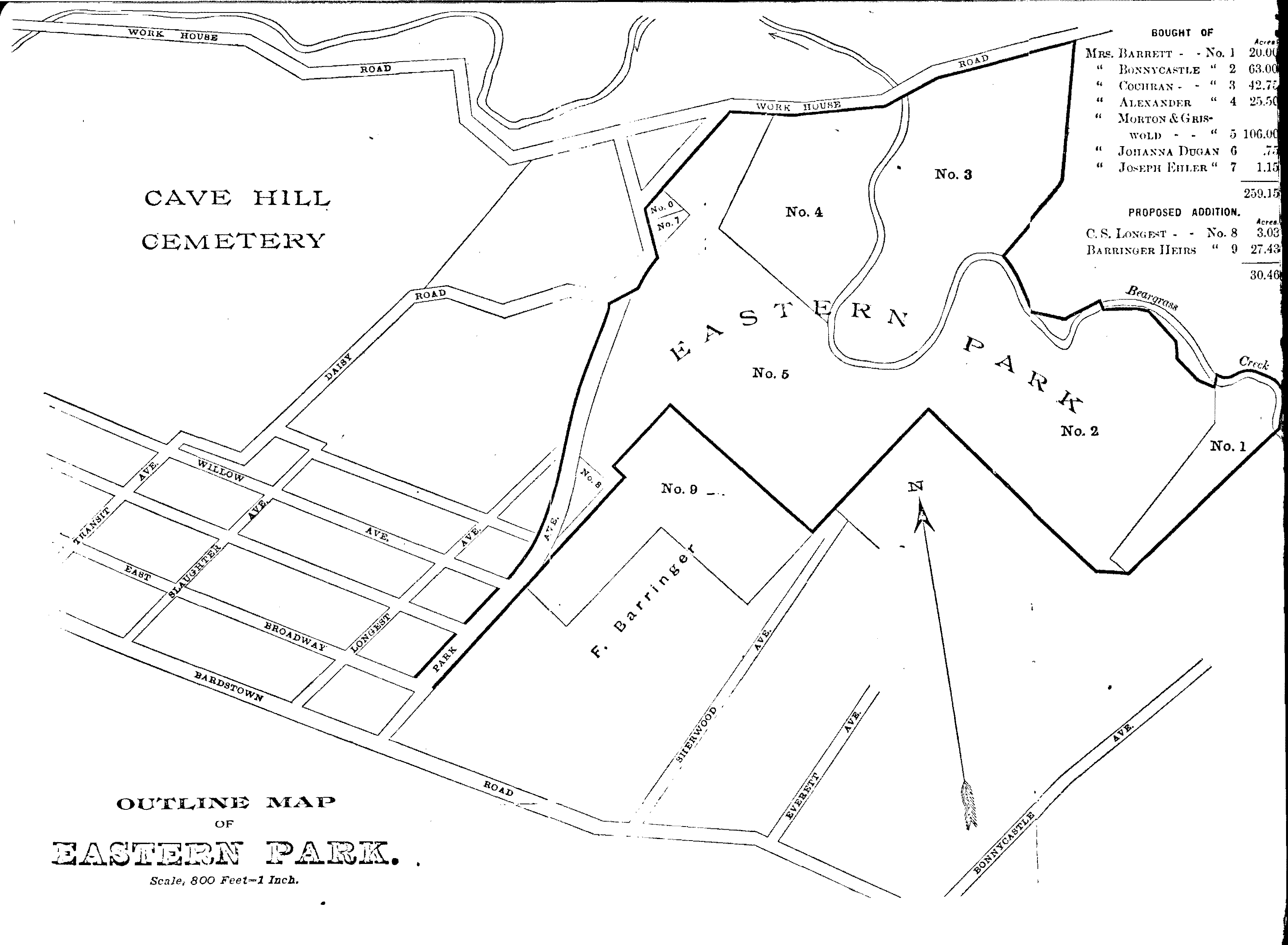 An 1893 map of Cherokee Park in Louisville, Kentucky USA Showing land ownership prior to purchase by the city for the park.